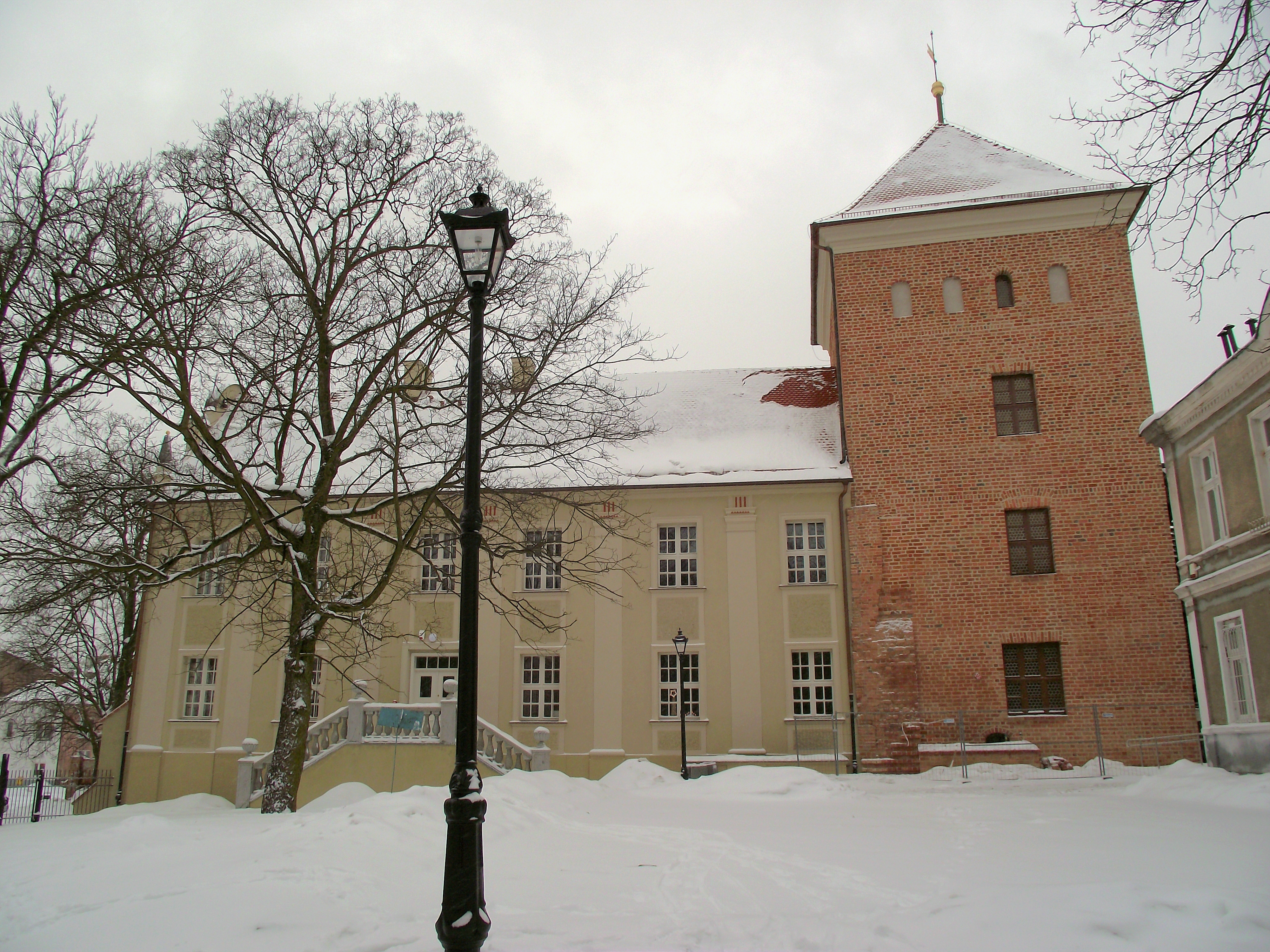 Sulechów Castle